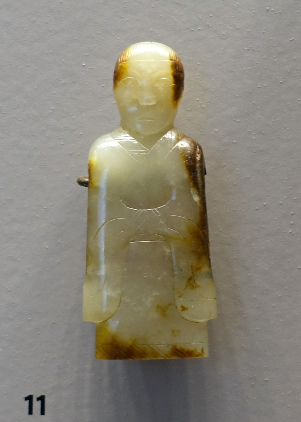 Exhibit in the Arthur M. Sackler Museum, Harvard University, Cambridge, Massachusetts, USA. This artwork is in the public domain because the artist died more than 70 years ago.